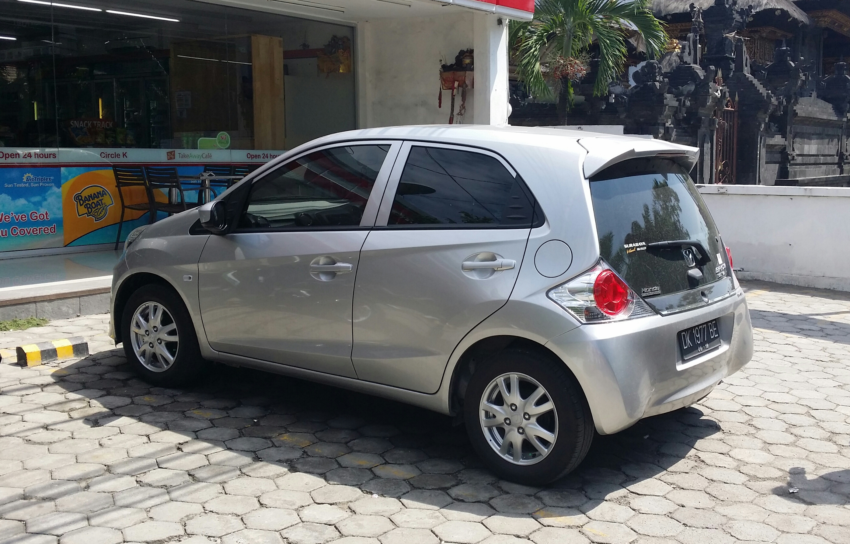 This is Honda's small car, the Honda Brio, that's sold in all developing markets and these things are really popular here. There is also a sedan, the Honda Amaze and a 7 seat MPV, called the Honda Mobilio.